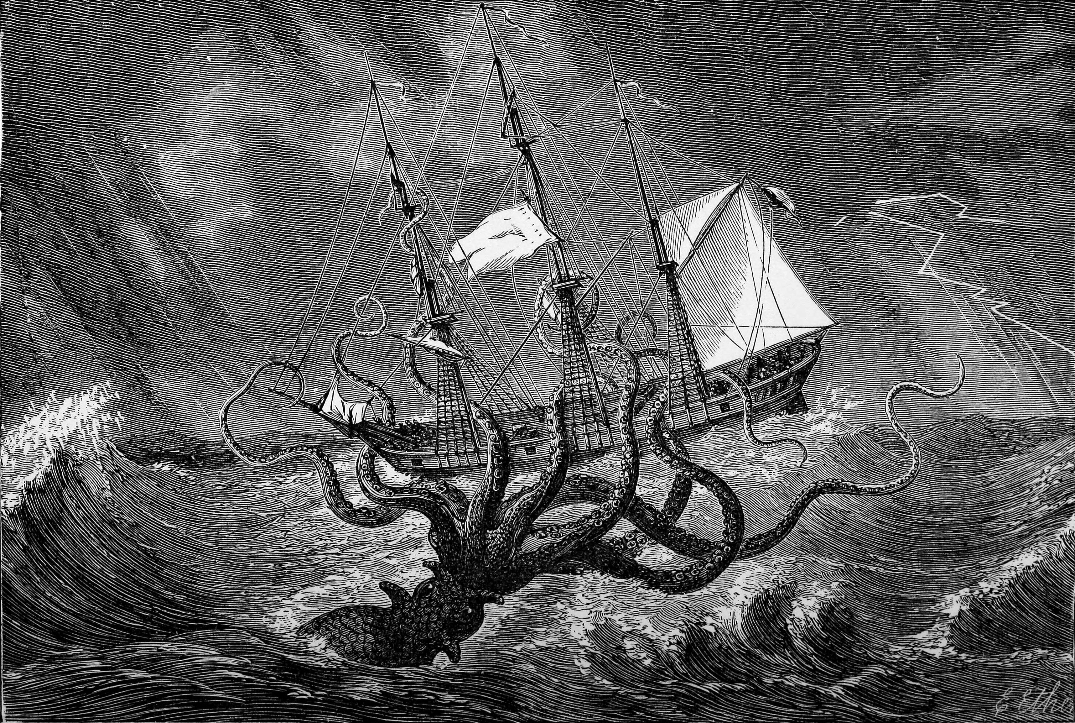 "The Kraken, as seen by the eye of imagination": imaginary view of a gigantic octopus seizing a ship